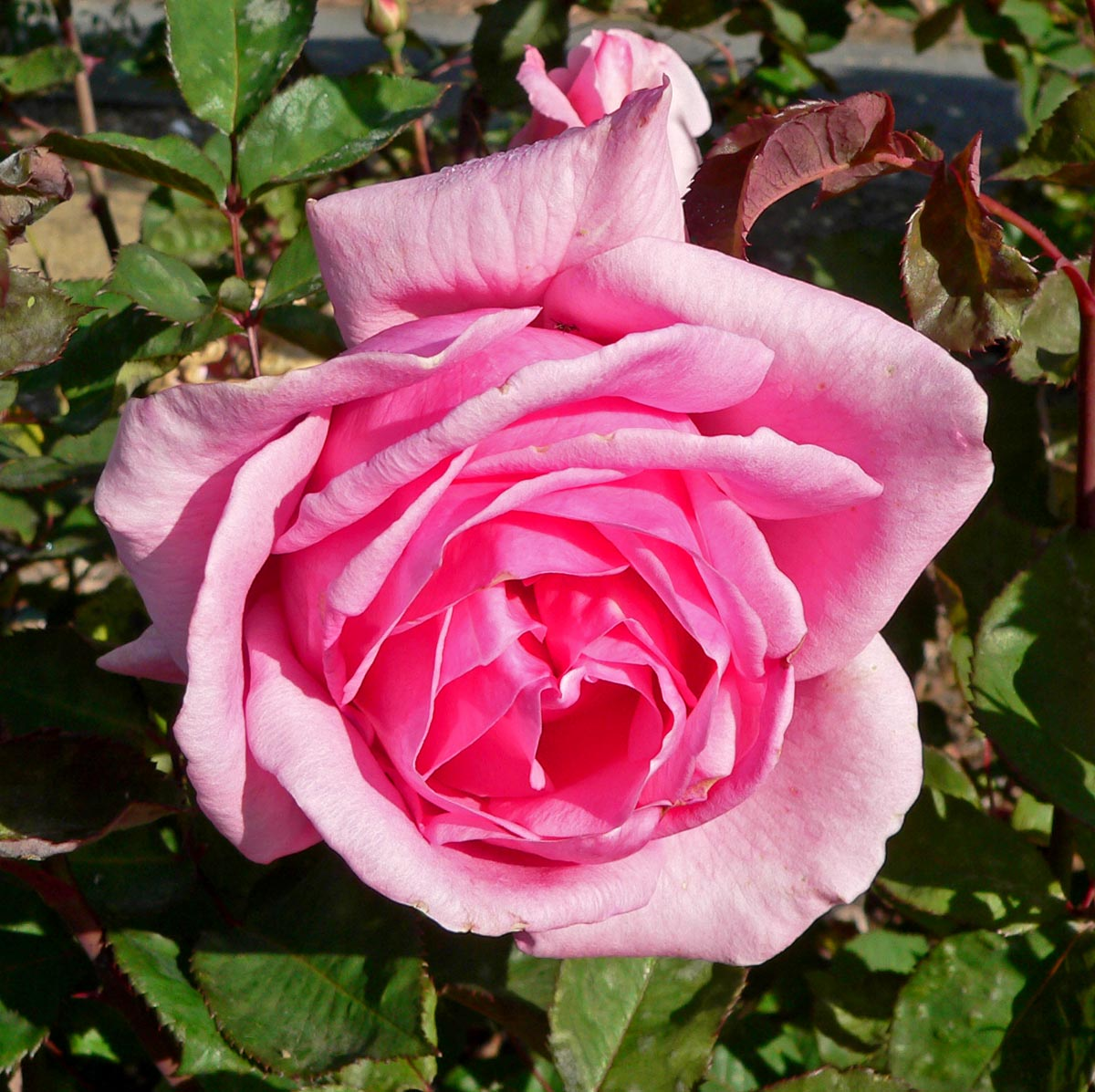 Photo of Rosa 'Rod Stillman' at the San Jose Heritage Rose Garden